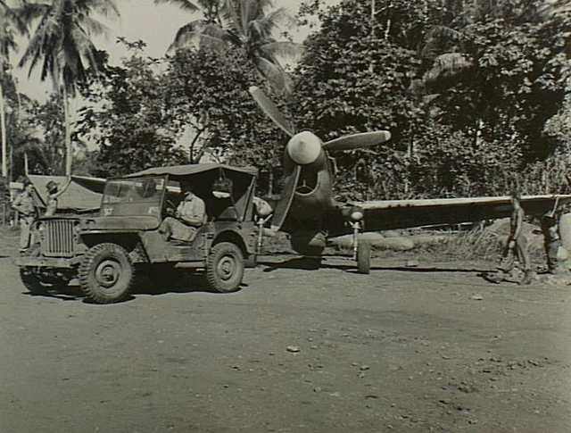 A No. 78 Squadron RAAF P-40 Kittyhawk fighter being towed by a jeep at an airfield near Hollandia in New Guinea